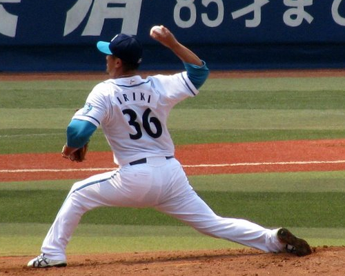 Yusaku Iriki, pitcher of the Shonan Searex, at Yokohama Stadium.